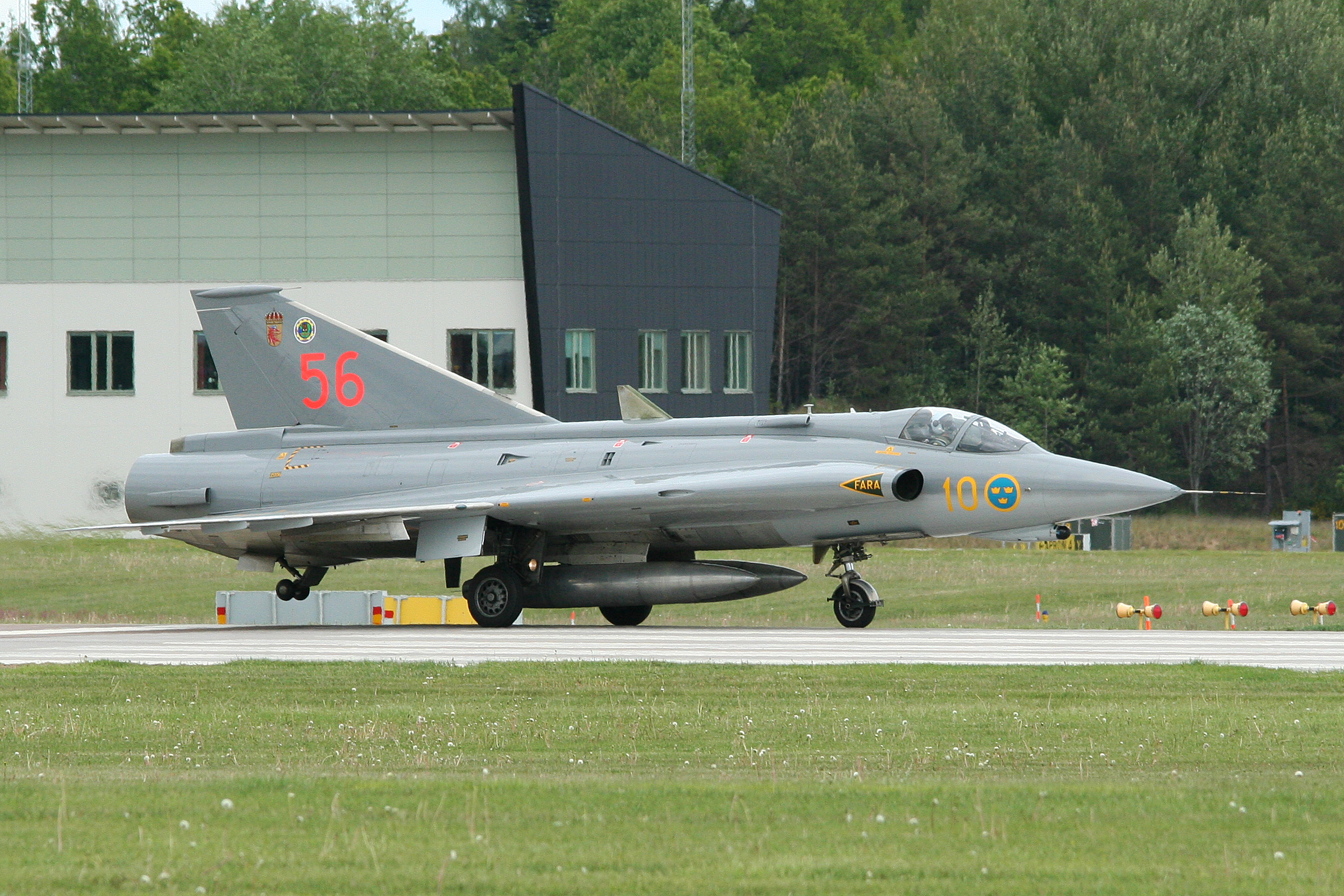 Operated by the Swedish AF Heritage Flight. Lined up ready to depart. msn 35-556. 2012 Malmen Airshow, Sweden. 03-06-2012